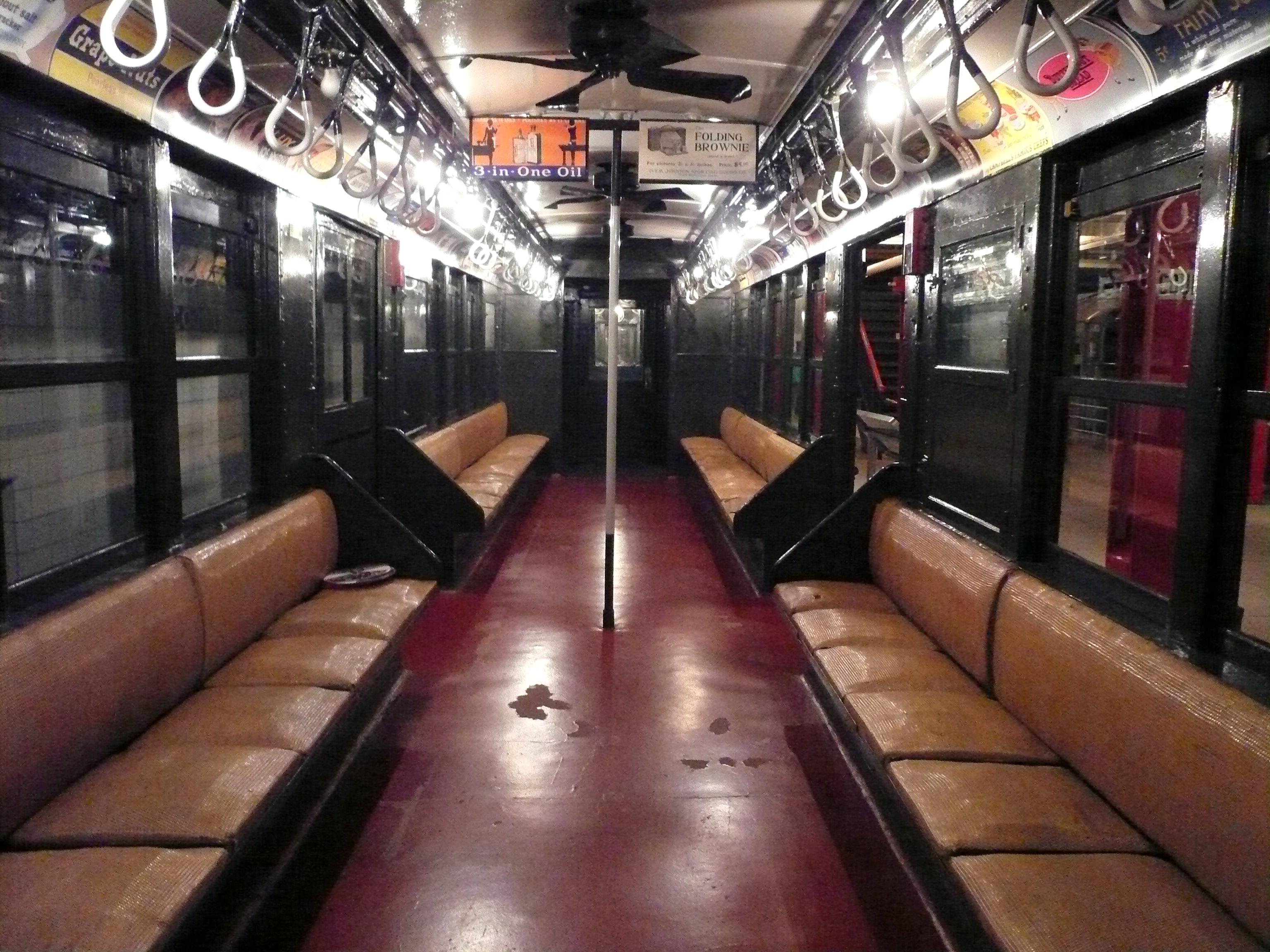 Interior of 1917 IRT lo-v subway car.